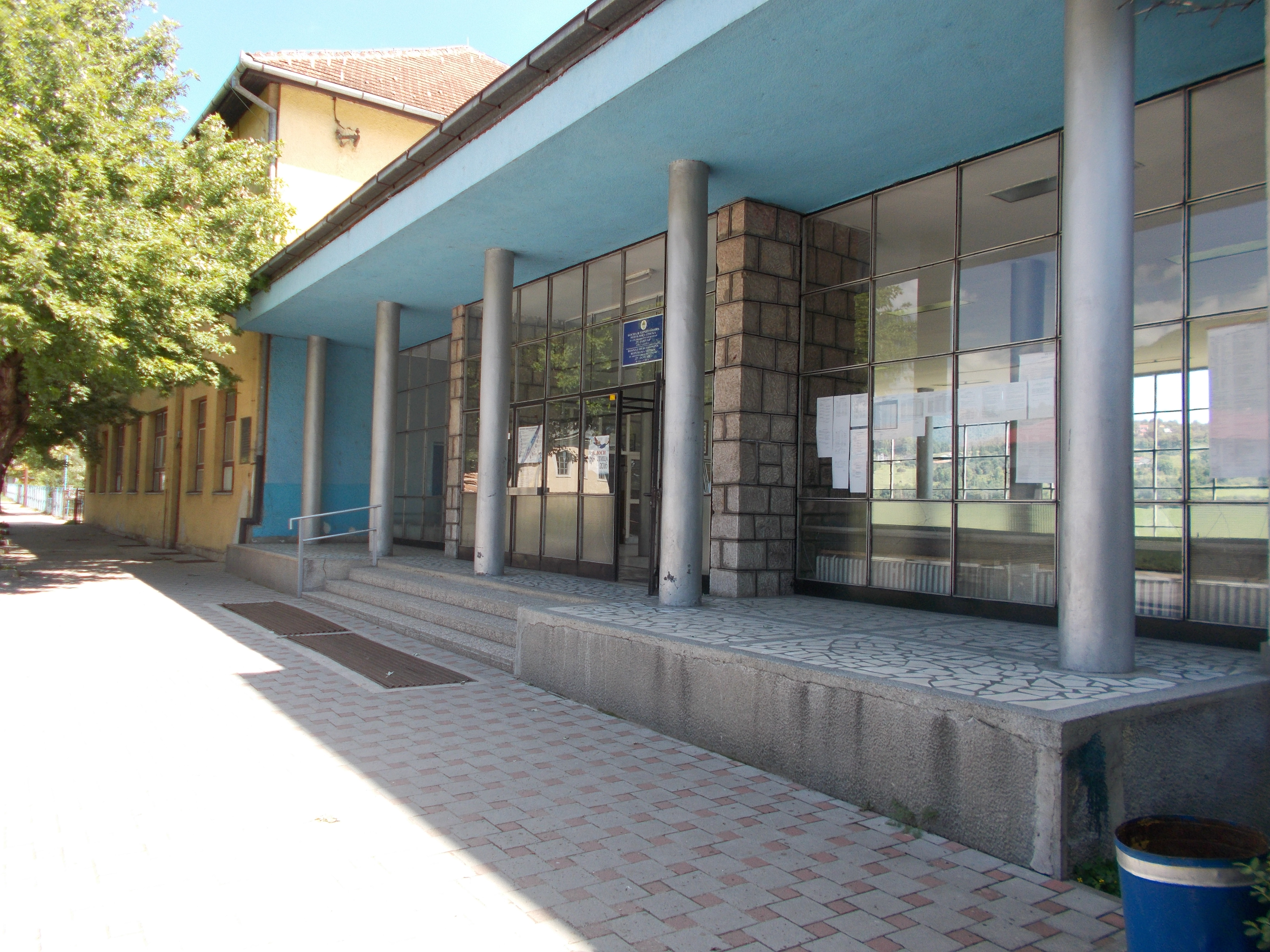 Rogatica, Republic of Srpska